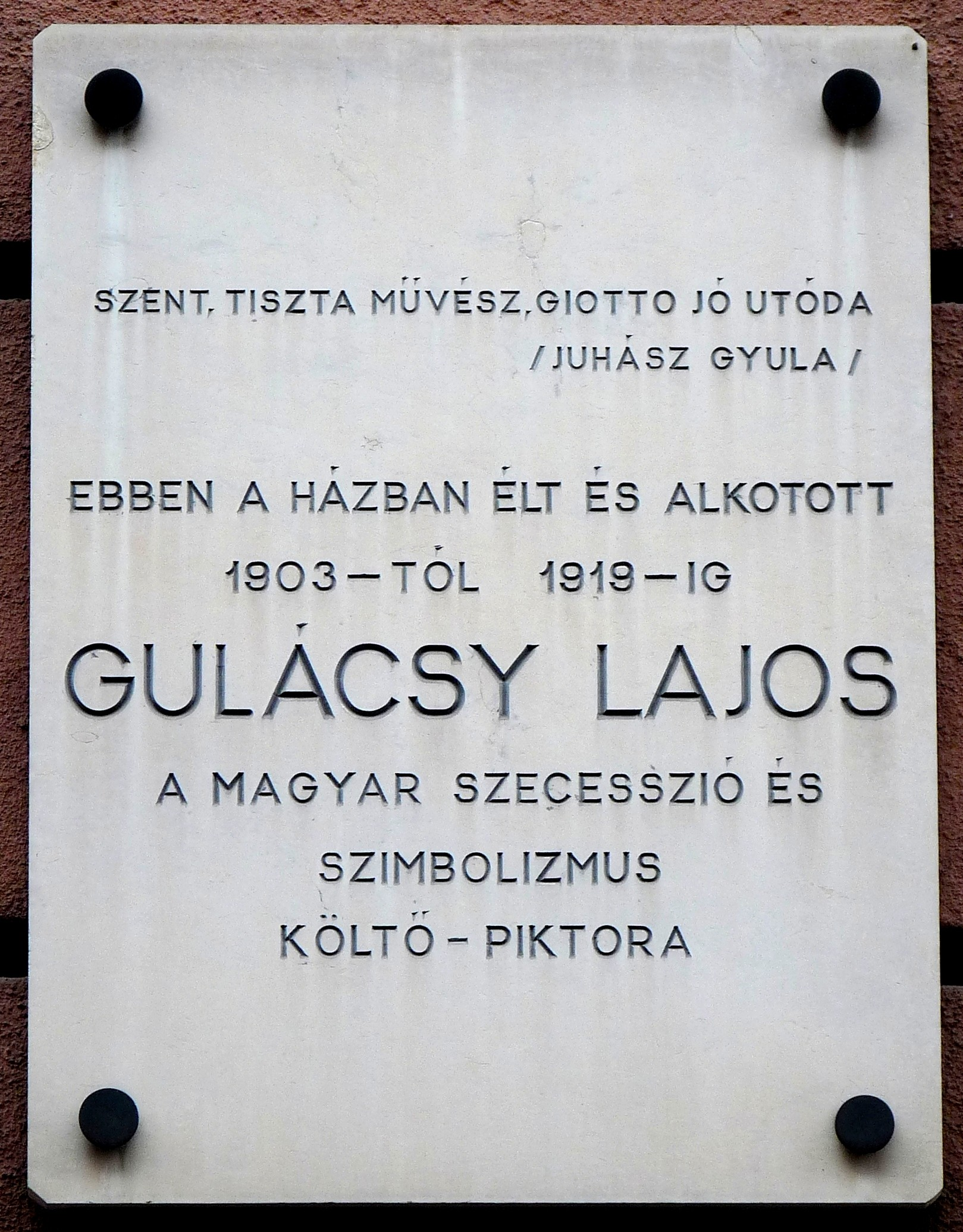 Commemorative plaque to Mr. Lajos Gulácsy (1882-1932), Hungarian painter, affixed on the front of the house where he lived and worked. (Budapest, District VIII, Rigó Street Nr 14).